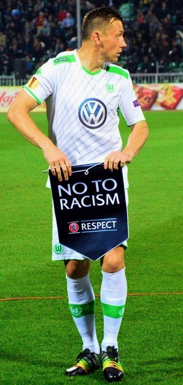 Ivica Olić